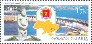 Stamp of Ukraine